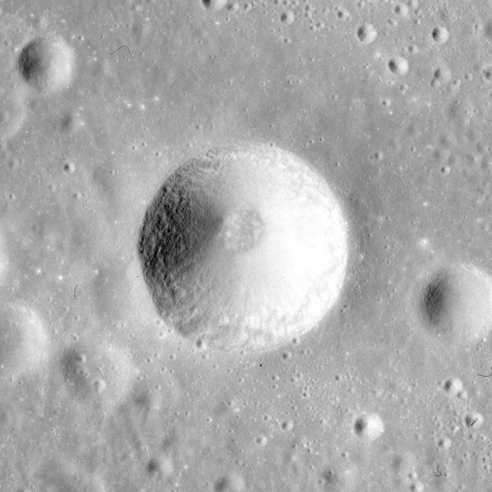 Benedict crater, within Mendeleev crater, on the far side of the moon.